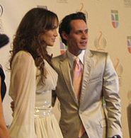 Jennifer Lopez & Marc Anthony, Lo Nuestro Awards, Miami, FL